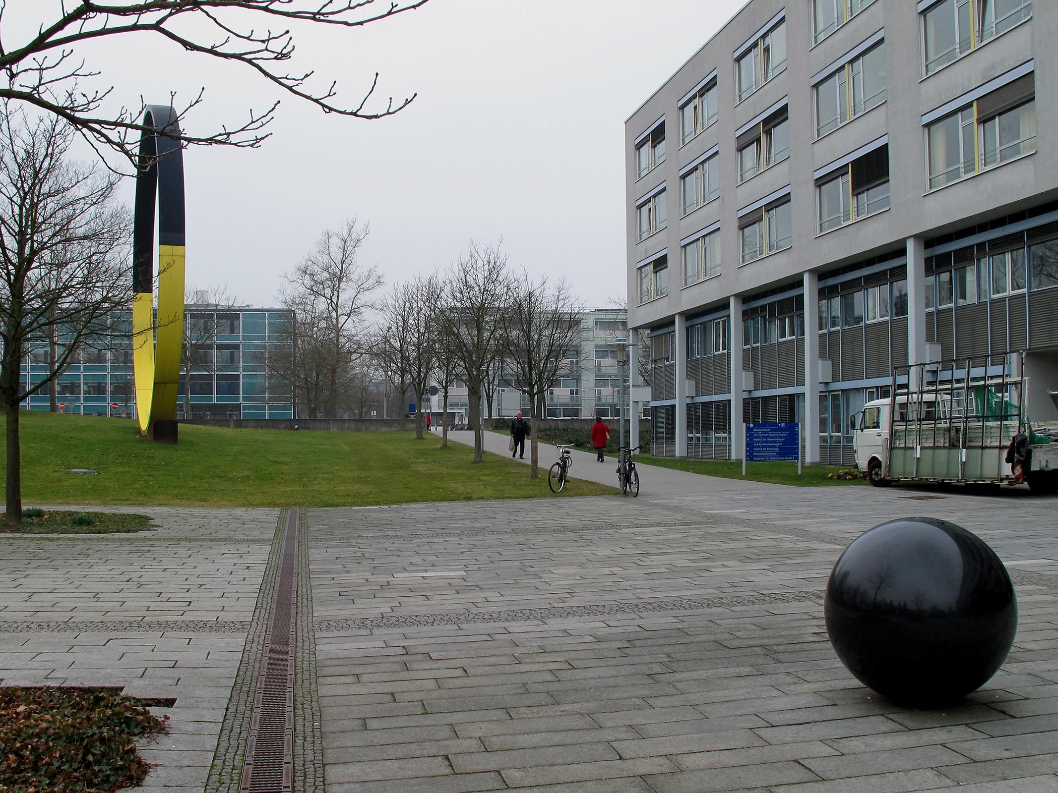 Kazuo Katase, Tonus (tripartite: ring with taper key, ball and hemisphere), 1995, - Germany, Baden-Württemberg, Freiburg im Breisgau, Breisacher Straße 64, in front of Neurozentrum der Universitätsklinik